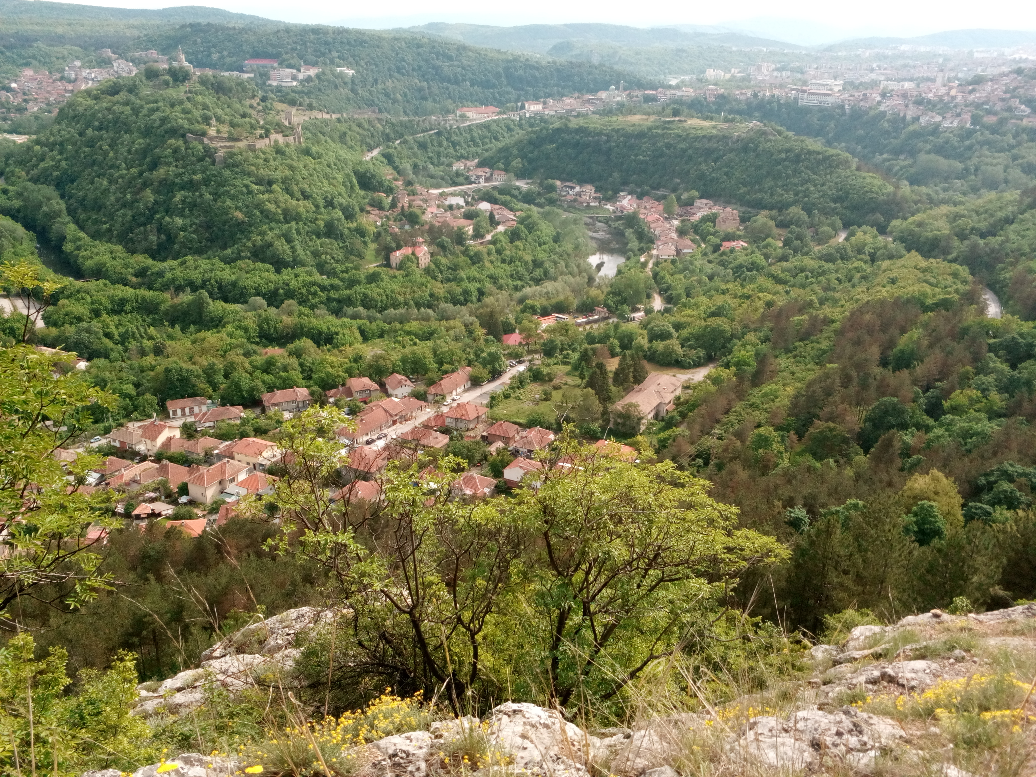 Asenov,Veliko Tarnovo